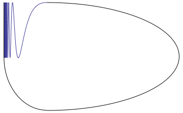 This is the compactification in the plane of the graph of sin(1/x) over the interval (0,2/π], with a judiciously chosen arc from (0,-1) to (2/π,1). Created using Mathematica®.